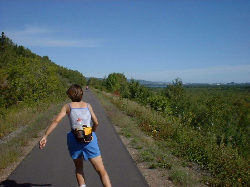 Another view of the Willard Munger State Trail as it approaches Duluth. St. Louis Bay can be seen to the right.